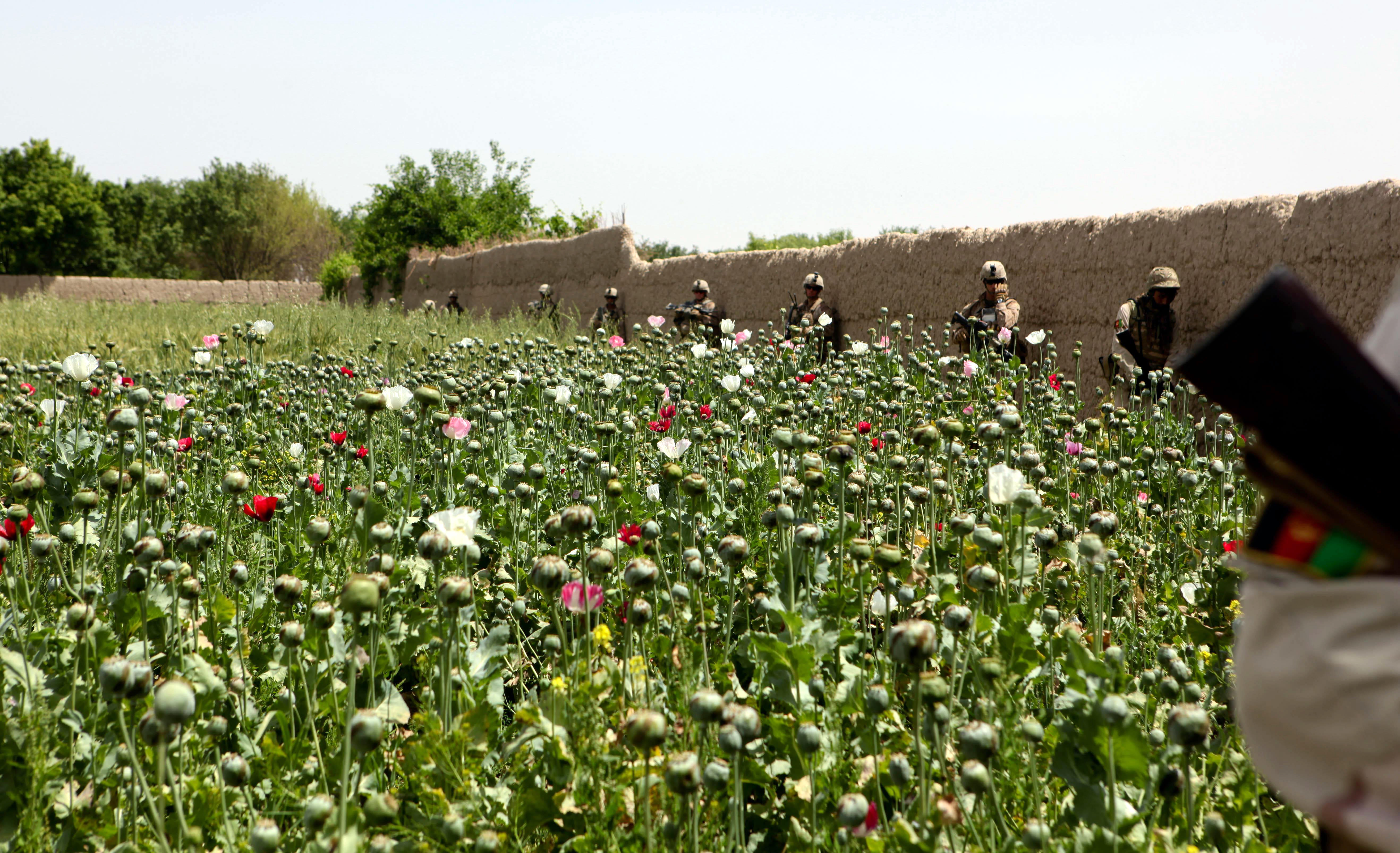 PATROL BASE SHARK, Helmand province, Islamic Republic of Afghanistan - Marines and Afghan National Army soldiers patrol through farmlands outside the base recently. Behind the small poppy field in the front of the photo is a wheat field. The local farmers are growing more and more of the wheat as an alternative to growing the illegal poppy.